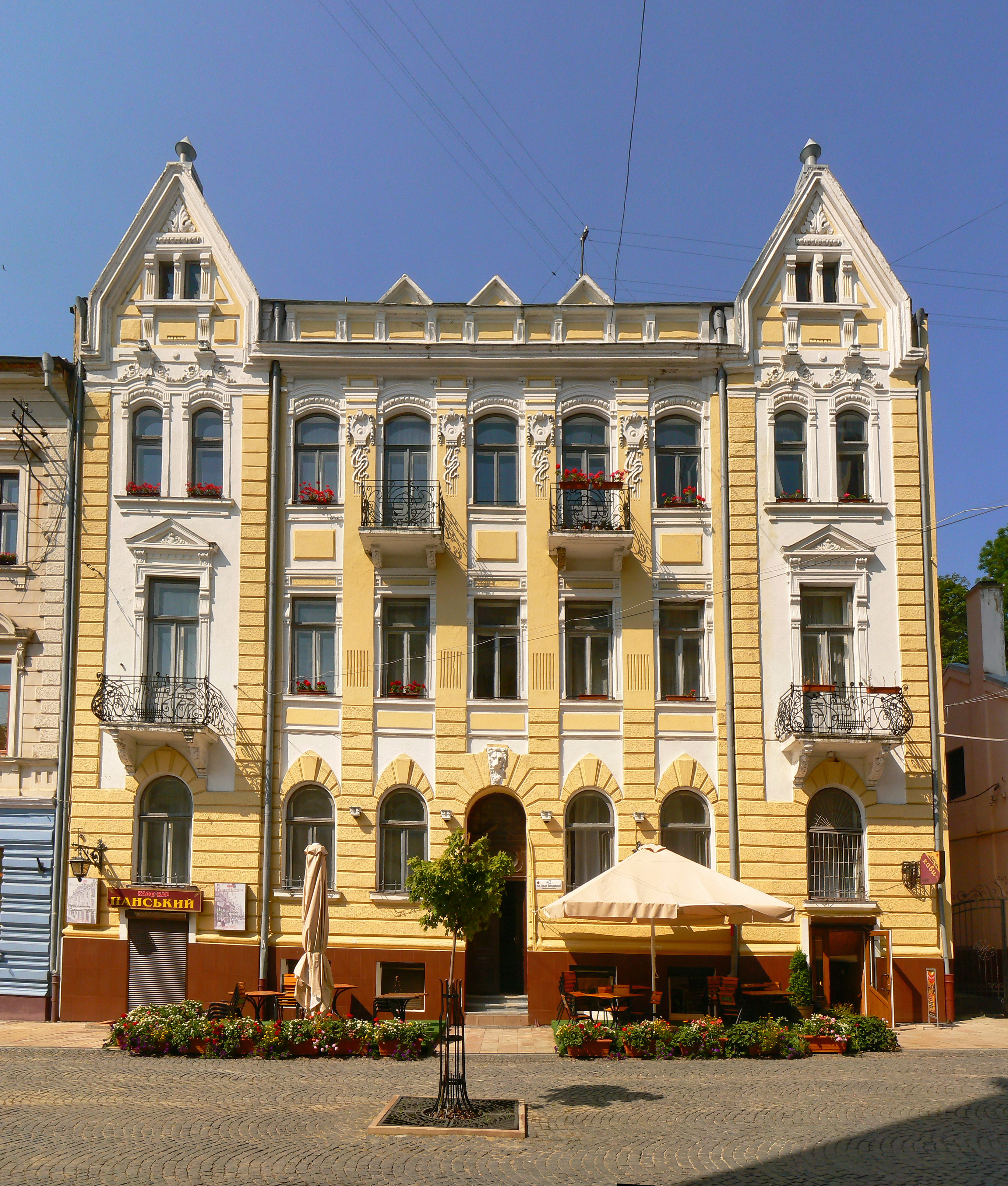 Кобилянської, 42